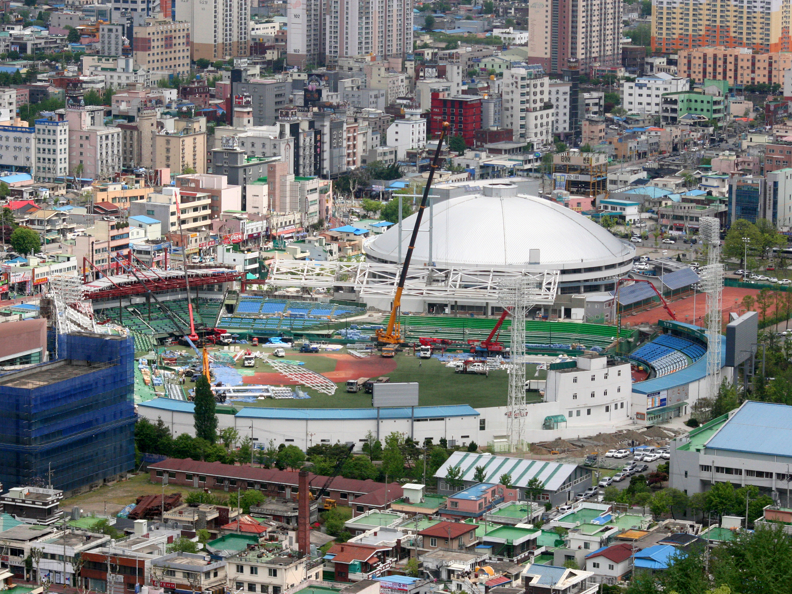 Daejeon Hanbat Baseball Stadium under renovation. Photo taken on May 2, 2012, from Bomun-san (Mt.) trail.